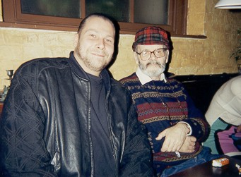 German gore director Andreas Schnaas (left) and the late Lucio Fulci (right) at the 1994 Eurofest, London, England.